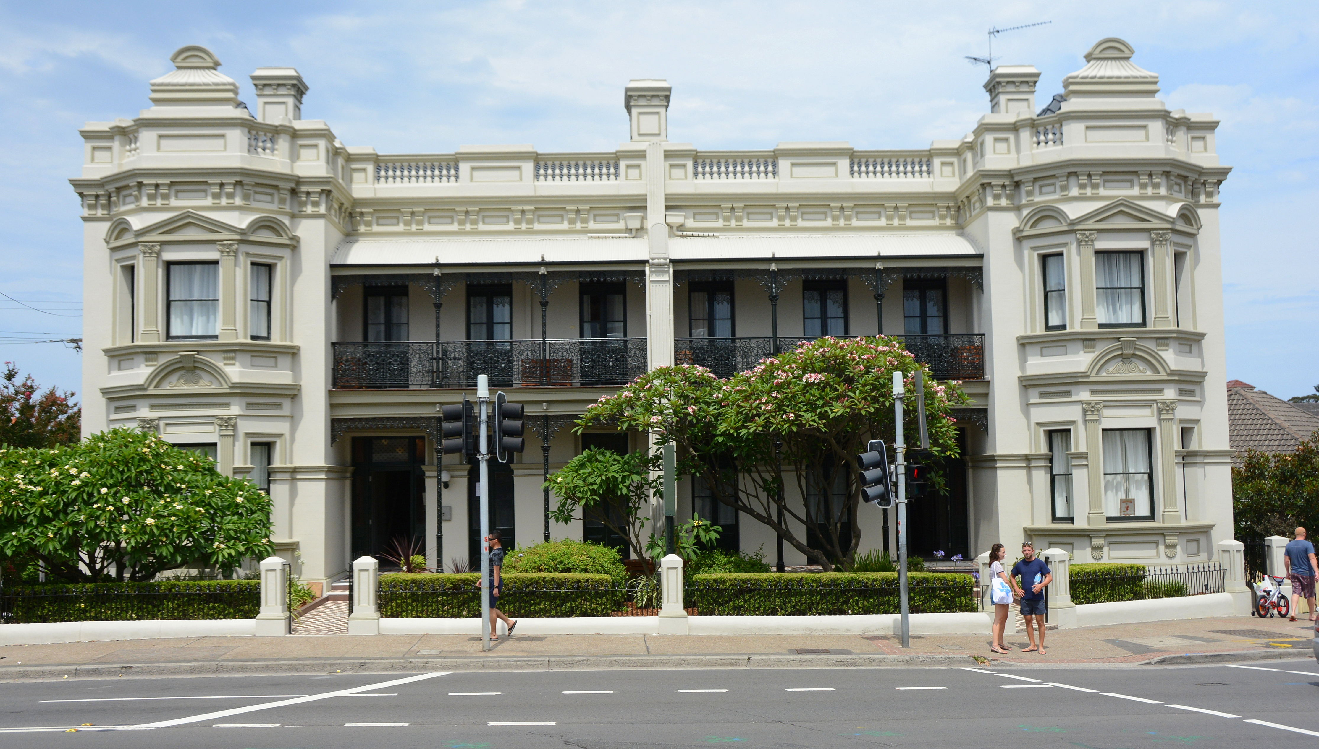 Randwick Lodge, Avoca St, Randwick, Sydney, after being repainted in 2016